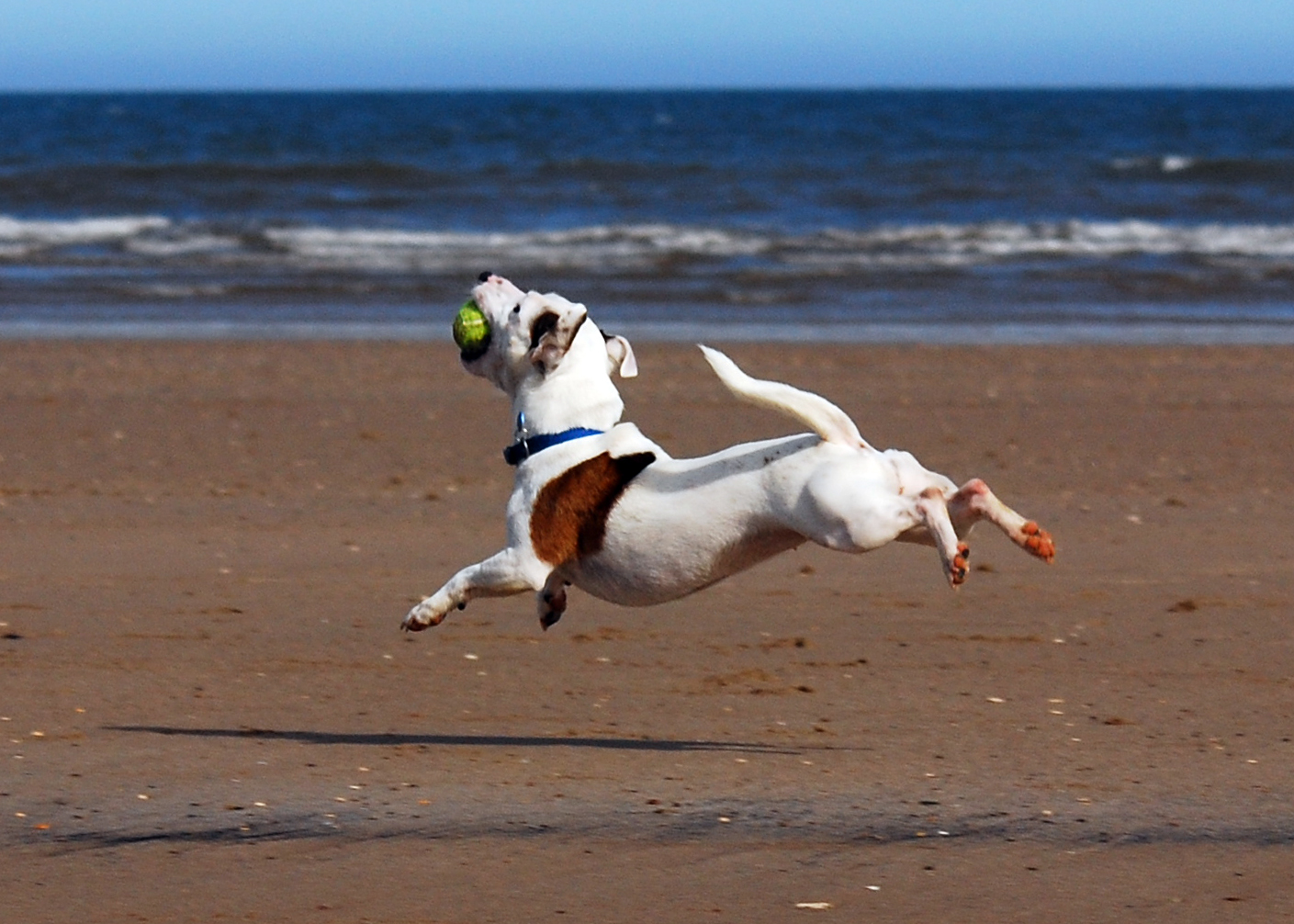 Eddi jumping at the beach